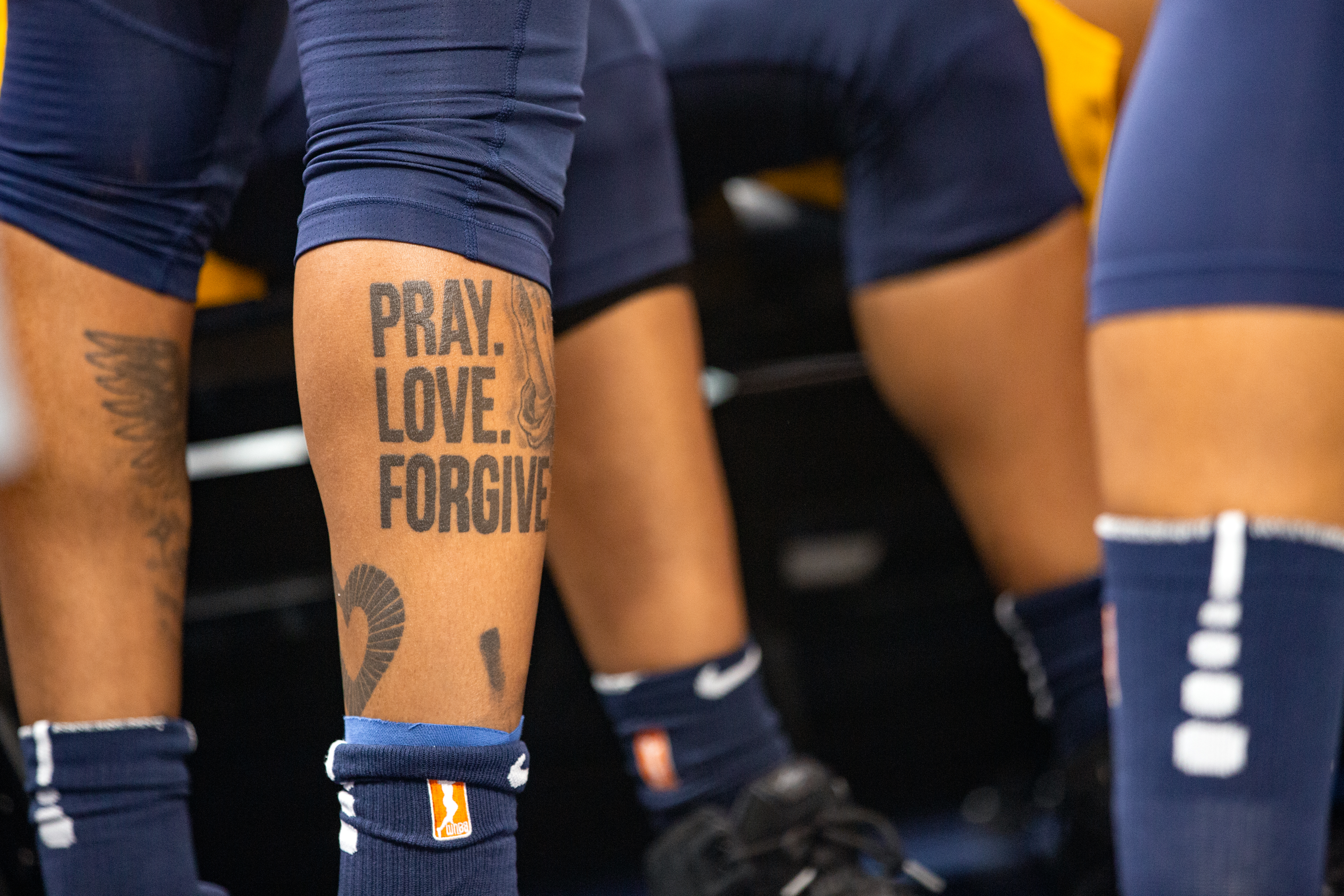 Pray. Love. Forgive. a closeup of Cappie Pondexter's tattoo in the Lynx vs Fever game, the Lynx won 89-65